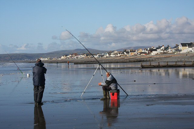 Anglers on Borth beach Looking north along Borth beach at low water.